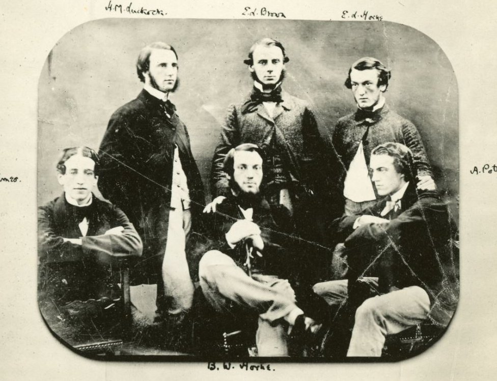 Some of the members that developed the "Cambridge rules" of football.